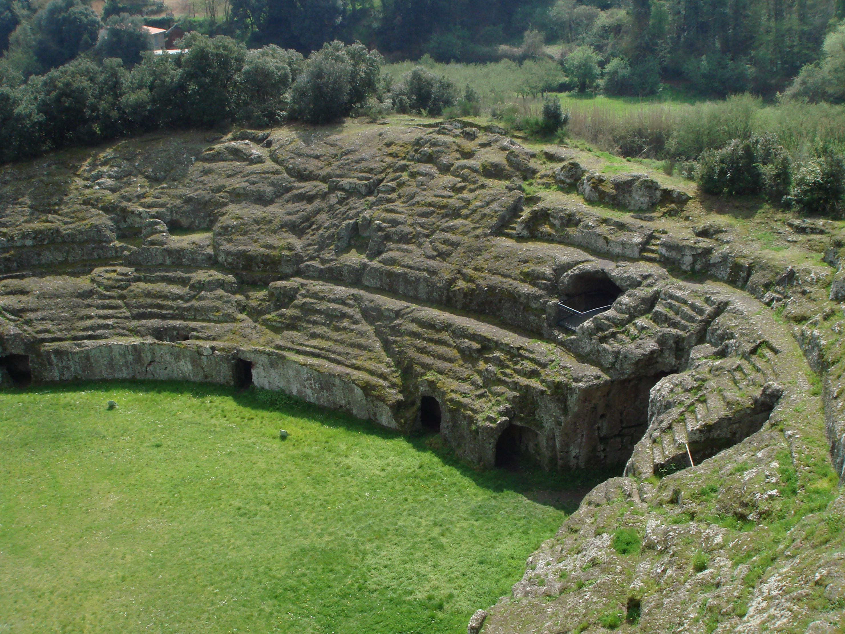 Amphitheatre of Sutri viewed from above (hill with Villa Savonelli).